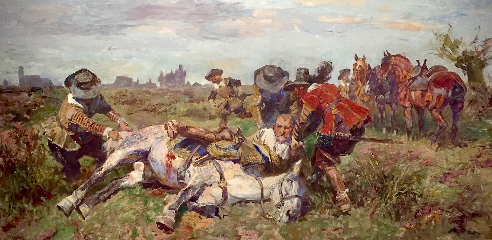 King Gustavus Adolphus of Sweden being rescued after his horse were severely wounded by a cannons shot during the siege of the City of Ingolstadt on 30 April 1632 during the Thirty Years' War. On the horizon, the silhouette of the besieged City of Ingolstadt is visible.